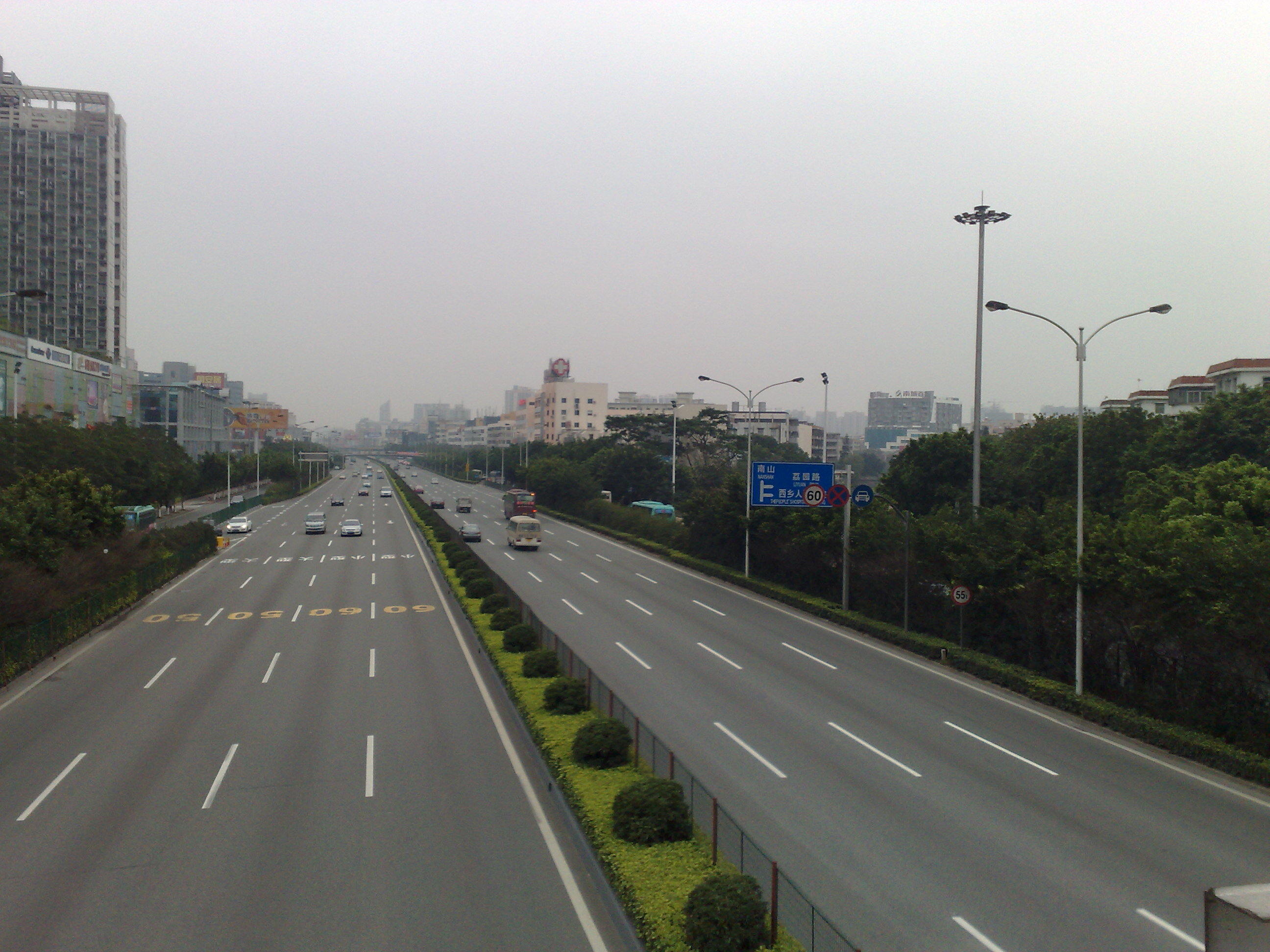 A photo of Xixiang Town, Shenzhen.